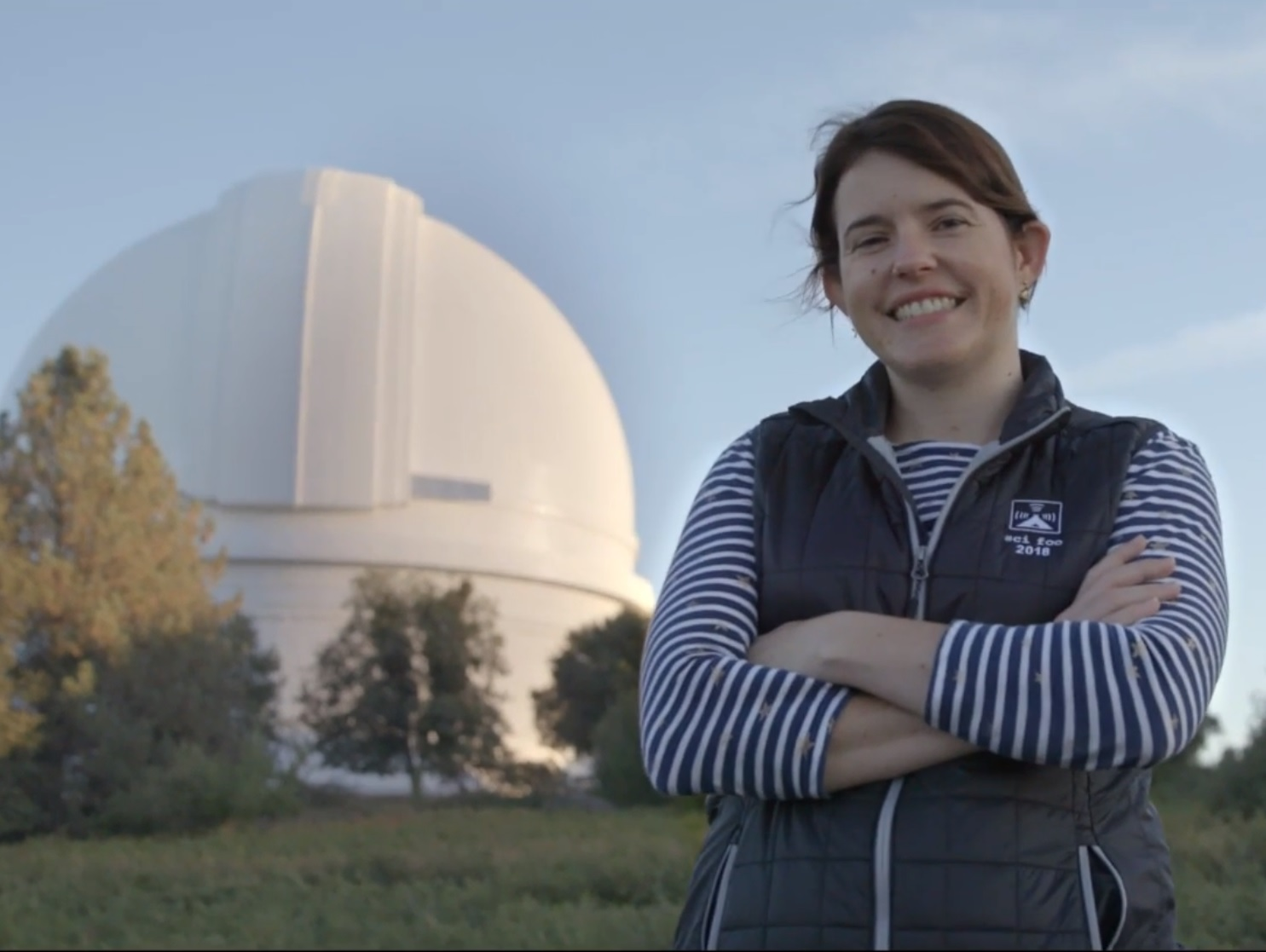 Dr Jessie Christiansen is a research scientist at the NASA Exoplanet Science Institute based at Caltech. Working on NASA’s Kepler and TESS missions, her role is to detect, characterise and catalogue exoplanets (planets around other stars). She is an active mentor and educator, always seeking opportunities to foster women and under-represented minorities in the natural sciences. Jessie holds a Bachelor of Science with Advanced Studies (2003) from Griffith University.